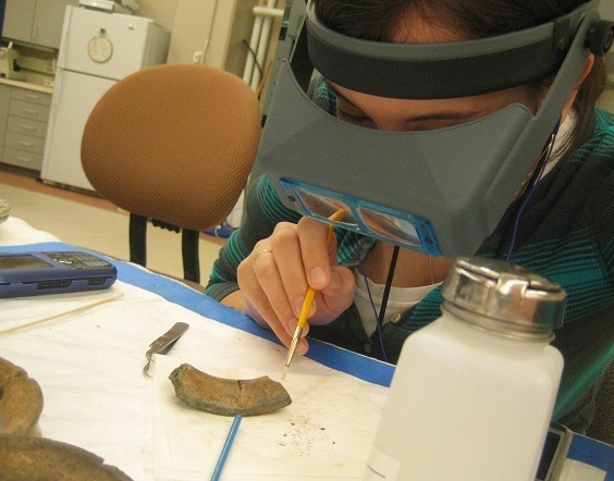 A museum technician is removing Duco glue adhesive from a paleo-lithic ceramic ring. From the Indiana State Museum.